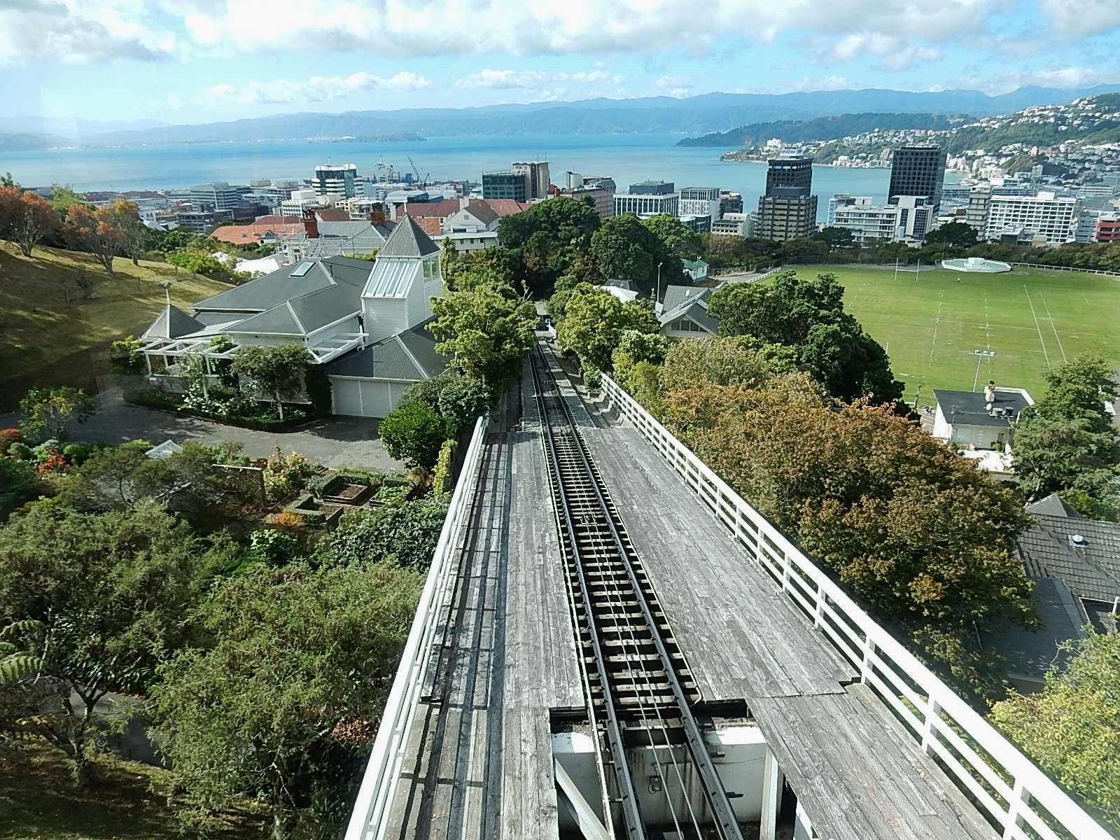 The Down Track